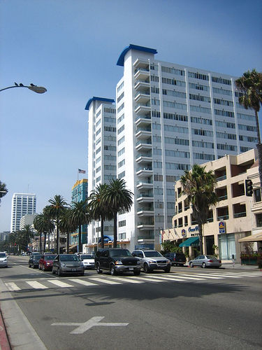 Ocean Avenue, Downtown Santa Monica